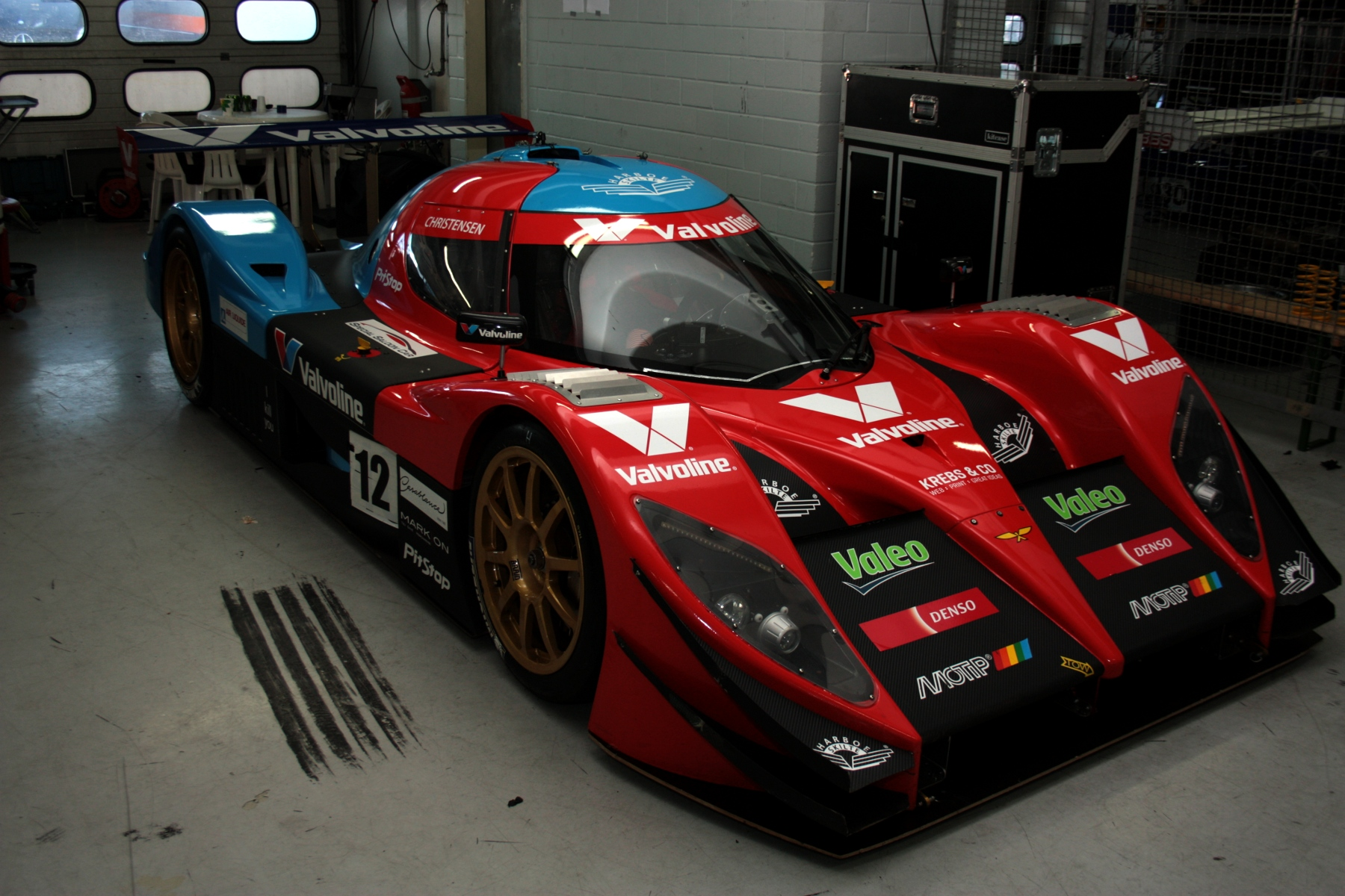 Aquila CR1 in Hockenheim 2011 waiting in box for second Sports Car Challenge race of the weekend.